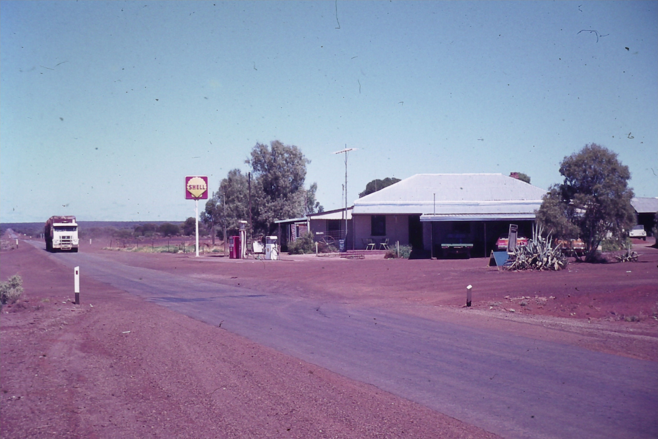 Paynes Find c1980, note the single lane Great Northern Highway